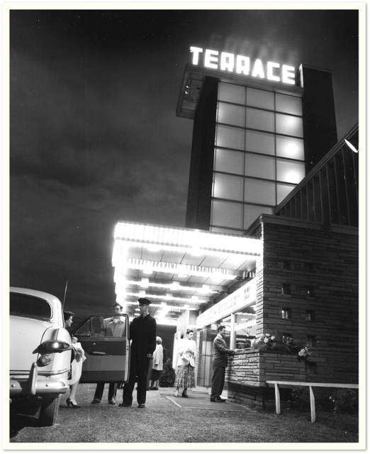 In the theater's early years a uniformed doorman met patrons upon their arrival. There was a circular driveway that allowed drivers to pull right up right to the door. The expansive parking lot accommodated 1,000 cars.